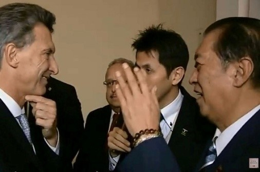 Kunio Hatoyama, Ambassador on Special Mission, met Mauricio Macri, President, at the National Congress in Buenos Aires City on December 10, 2015.